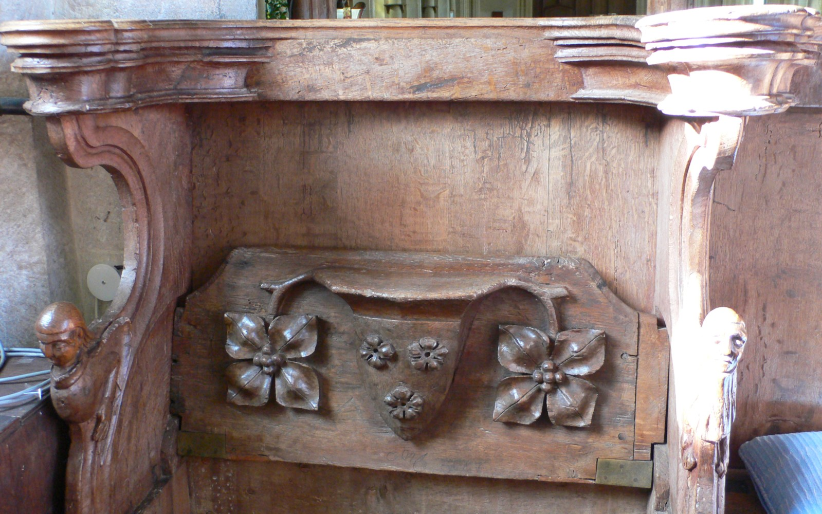 chancel stall St Nicholas, Blakeney. See Farrer, Rev. Edmund, "The church heraldry of Norfolk: a description of all coats of arms on brasses, monuments, slabs, hatchments, &c., now to be found in the county. Illustrated. With references to Blomefield's History of Norfolk and Burke's Armory. Together with notes from the inscriptions attached" , Vol.2, Norwich, 1889,p.375[1] Arms of Bardolf